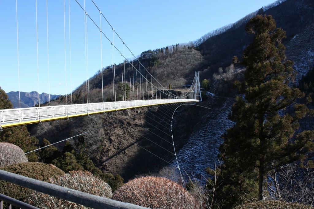 The Ueno Skybridge in Gunma prefecture